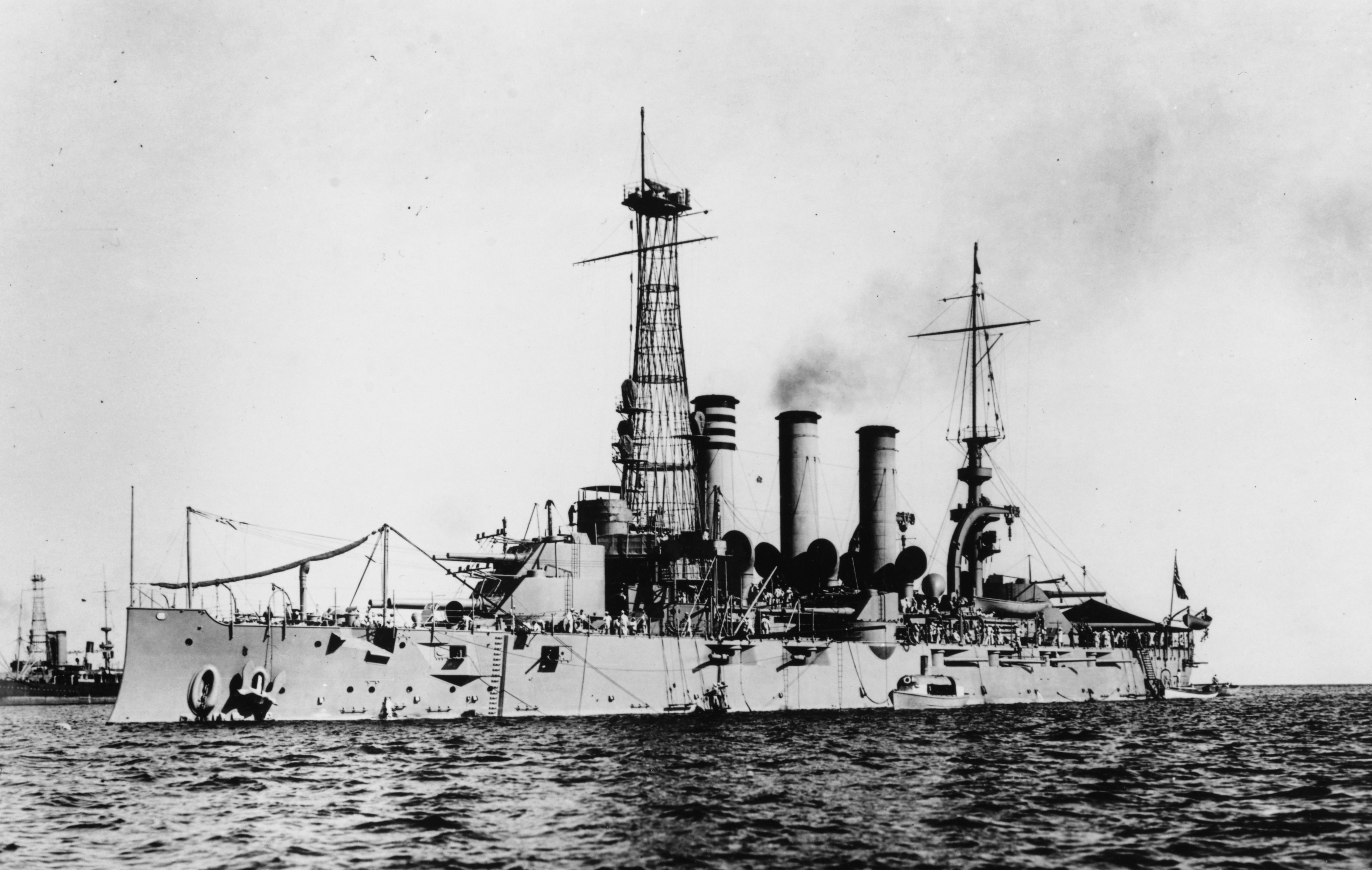 (Battleship # 13) At anchor, circa 1909, while fitted with only one cage mast. An Illinois class battleship is in the left distance, with a collier alongside.